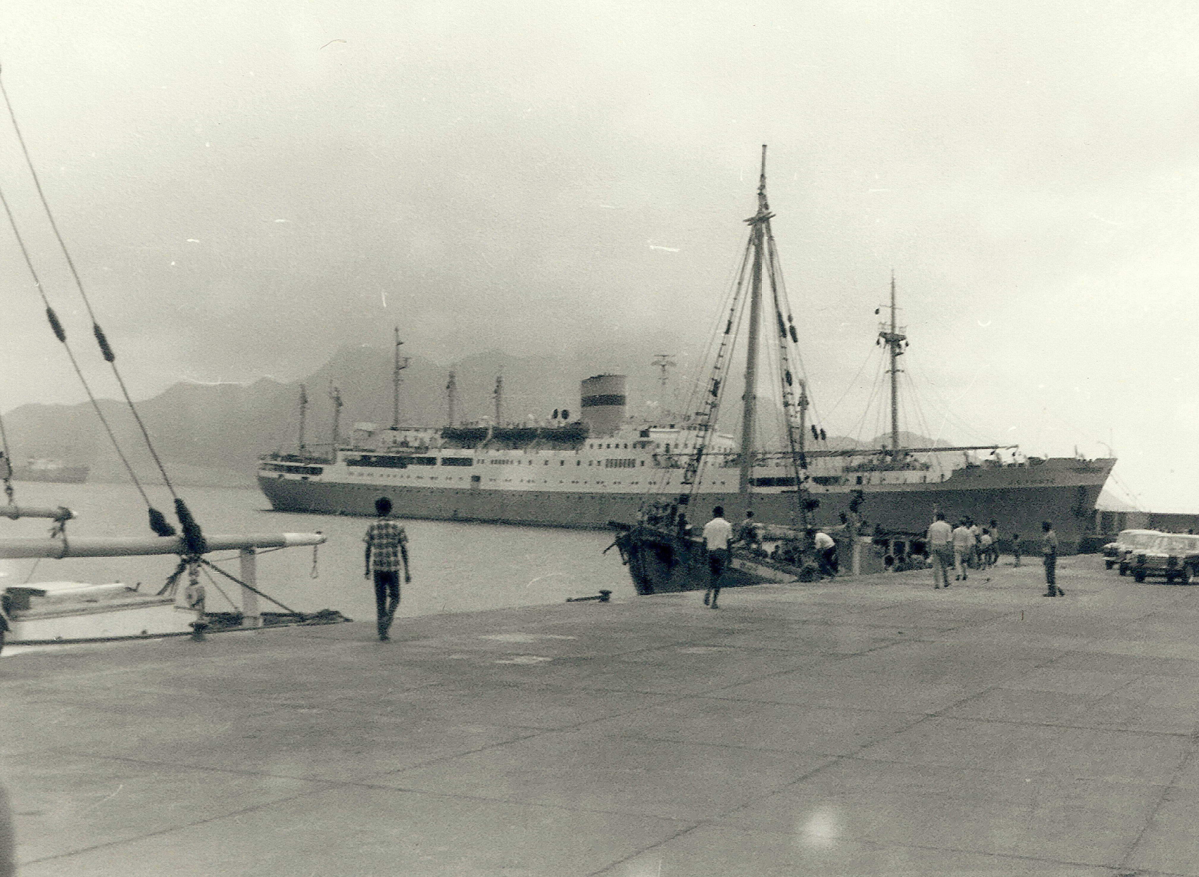 East german motor vessel J.G. Fichte 1973